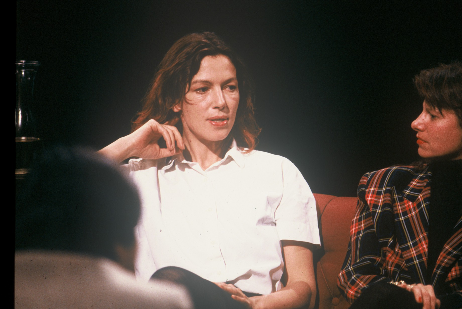 Katharine Hamnett appearing on After Dark on 11 March 1988. Other guests included Bruce Oldfield and Nicholas Coleridge.